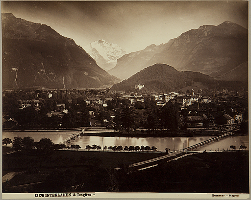 albumen